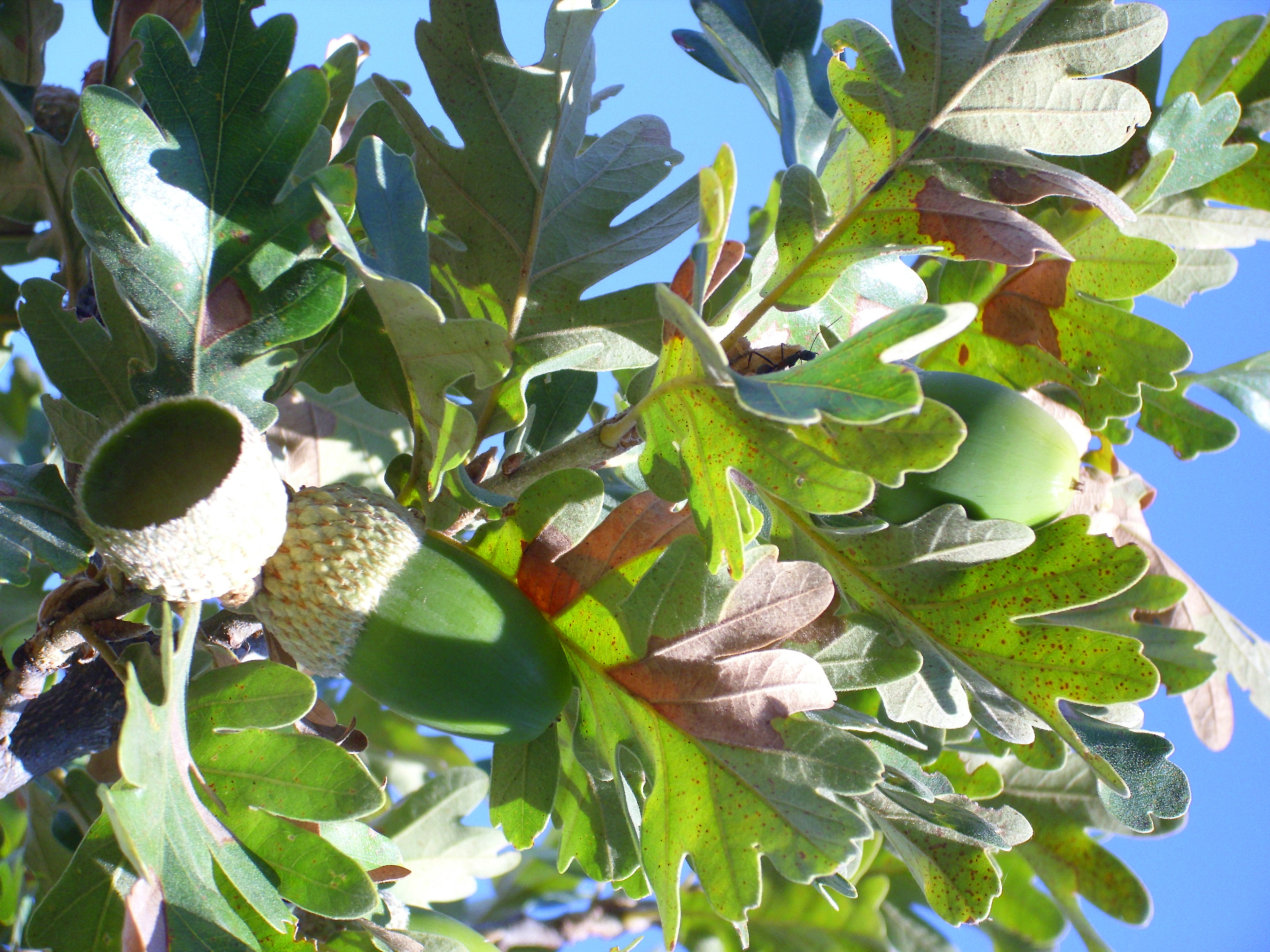 Quercus pyrenaica acorns close up, Dehesa Boyal de Puertollano, Spain